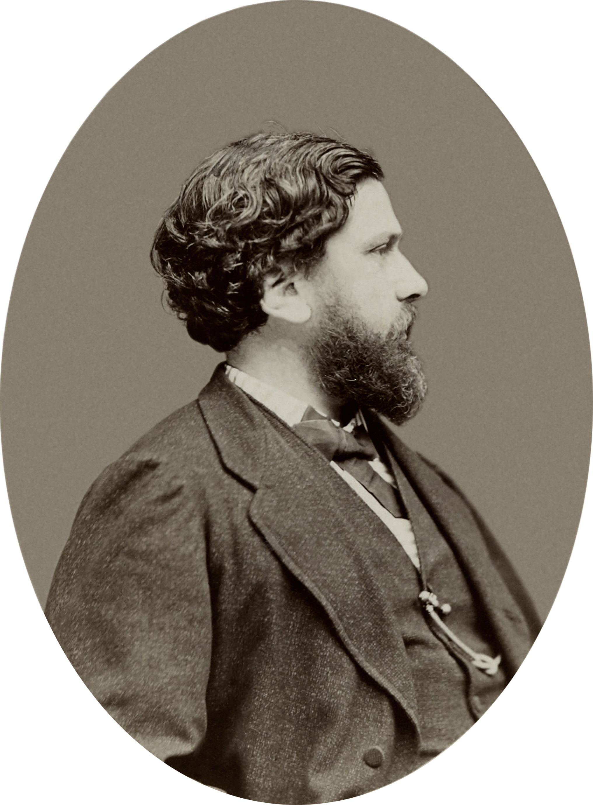 Philippe Burty (1830 - 1890), french art critics